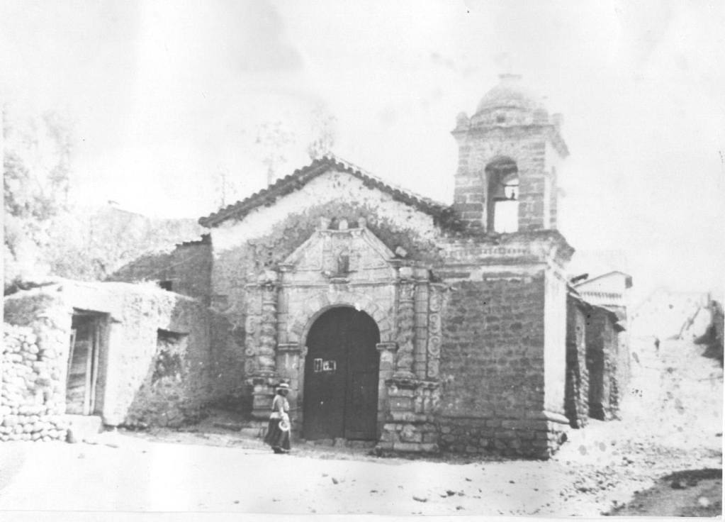 PampaSanAgustn